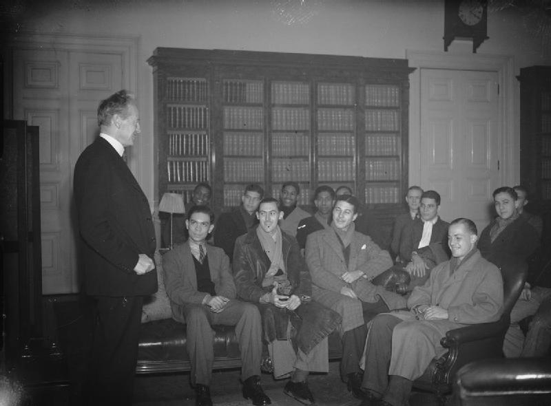 British Political Personalities 1936-1945 The Churchill Coalition Government 11 May 1940 - 23 May 1945: Lord Moyne, Secretary of State for the Colonies from February 1941 to February 1942, entertaining recruits from Jamaica on their arrival in London for RAF training.